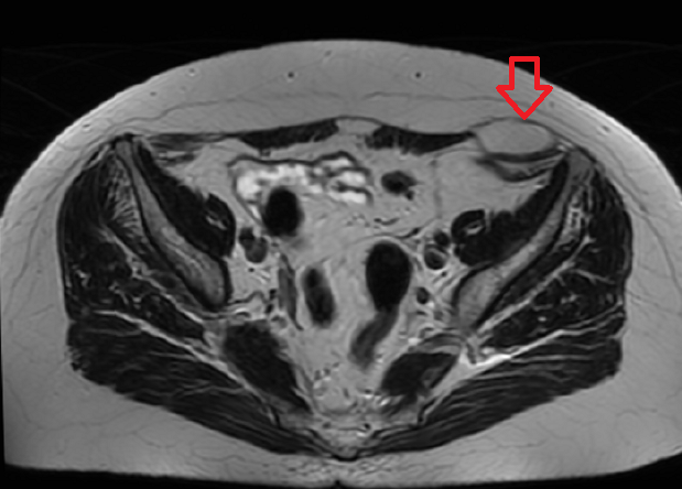 Spigelian hernia in left lower abdomen. Axial T2w MRI